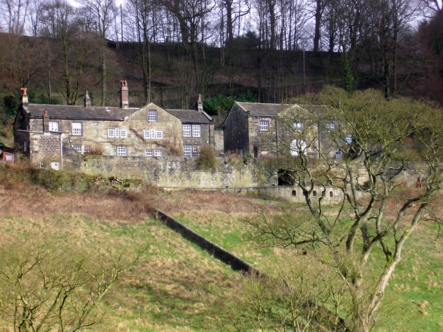 Lumb Bank An eighteenth century mill owner’s house, once owned by Ted Hughes, which is now a centre for a foundation, providing residential writing and poetry courses. Note that TEAS were once available, according to the faded, painted notice, but they were probably not served by the poet.